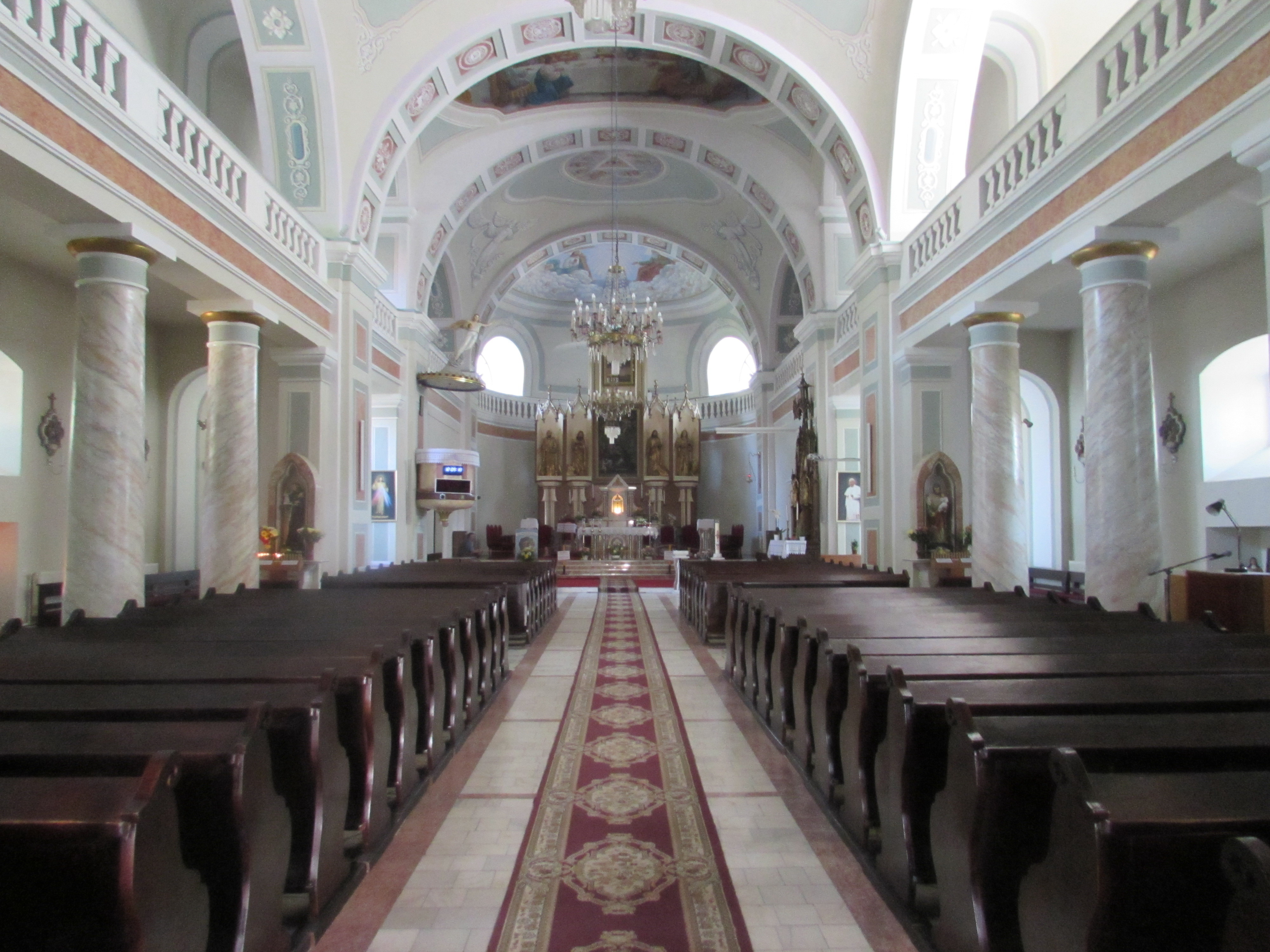 St. John of Nepomuk Roman Catholic Church in Suceava.